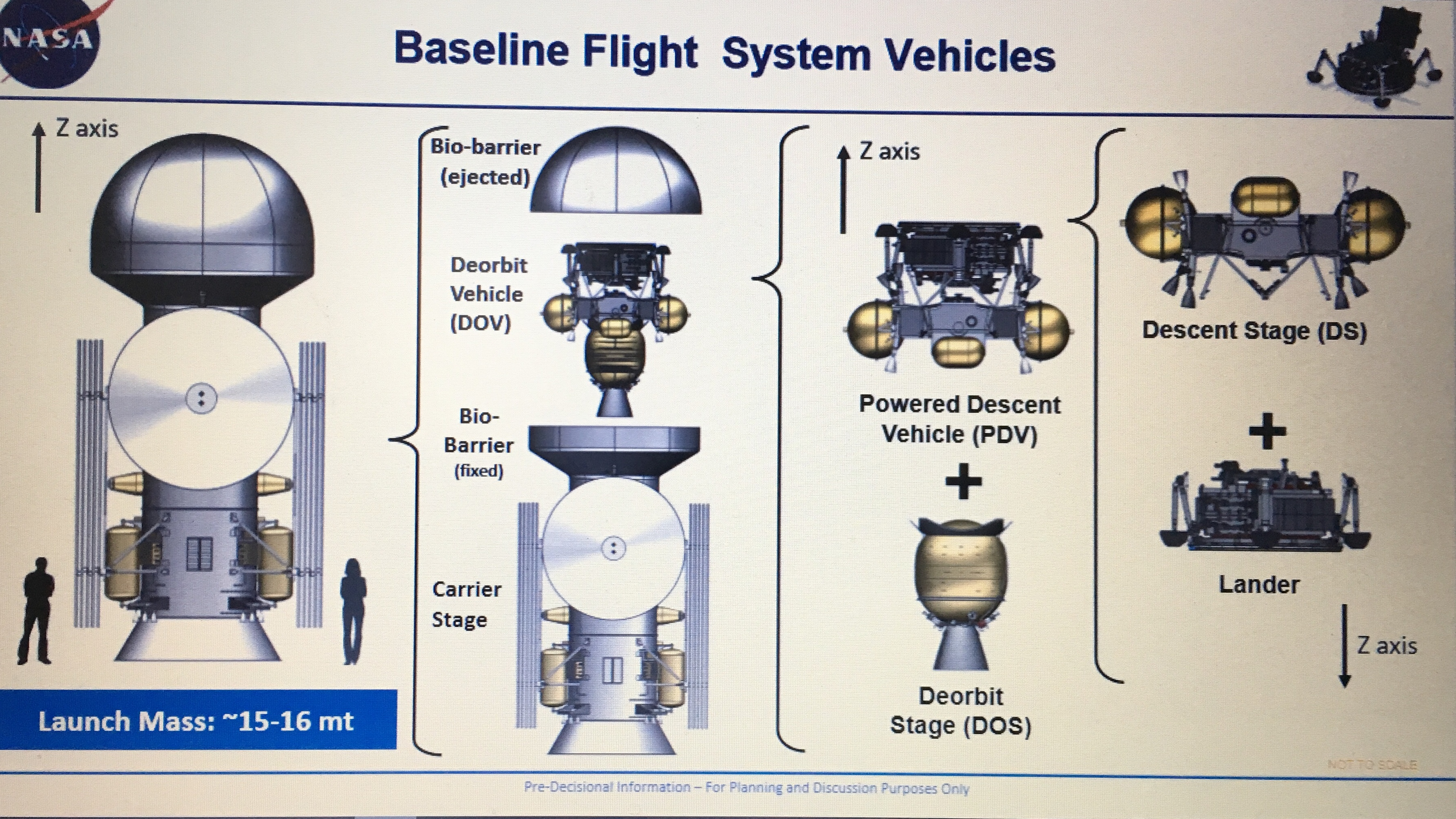 Diagram representing the different spacecraft modules supporting the Europa Lander. Аҧсшәа: Diagrama representando los modulos propuestos para el aterrizador Europa Lander.